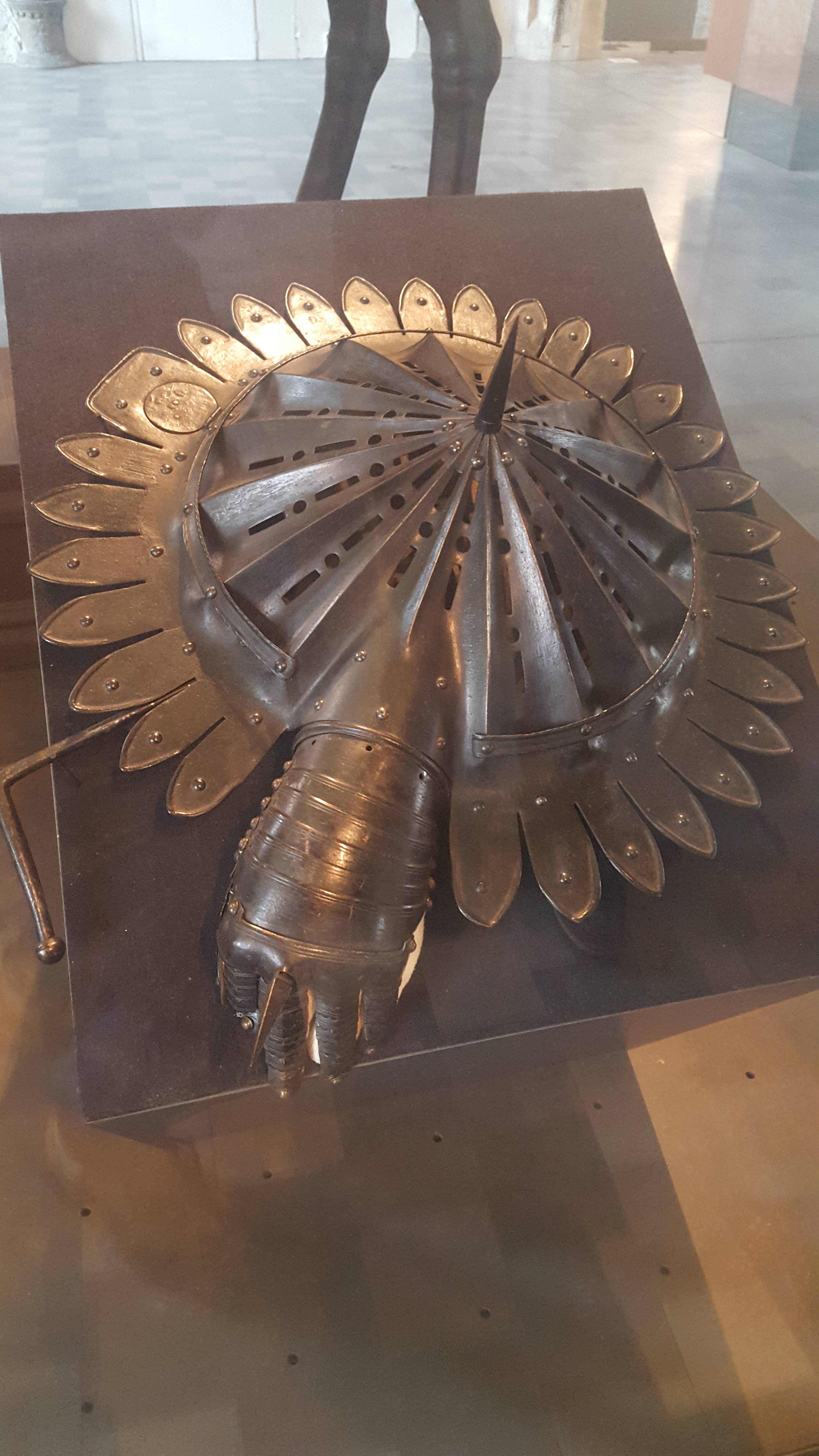 Rondache in the Halle Gate museum, during Wiki Loves Art, Brussels, Belgium